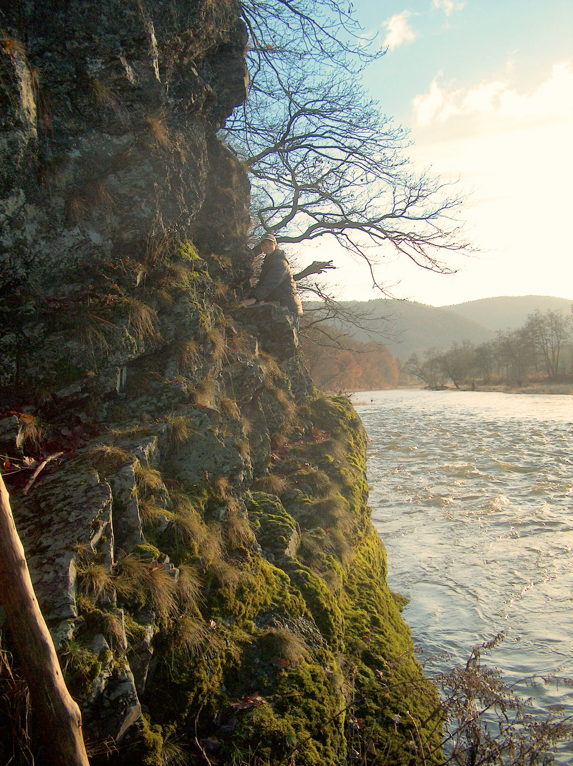 Valley of the river Sieg in Germany